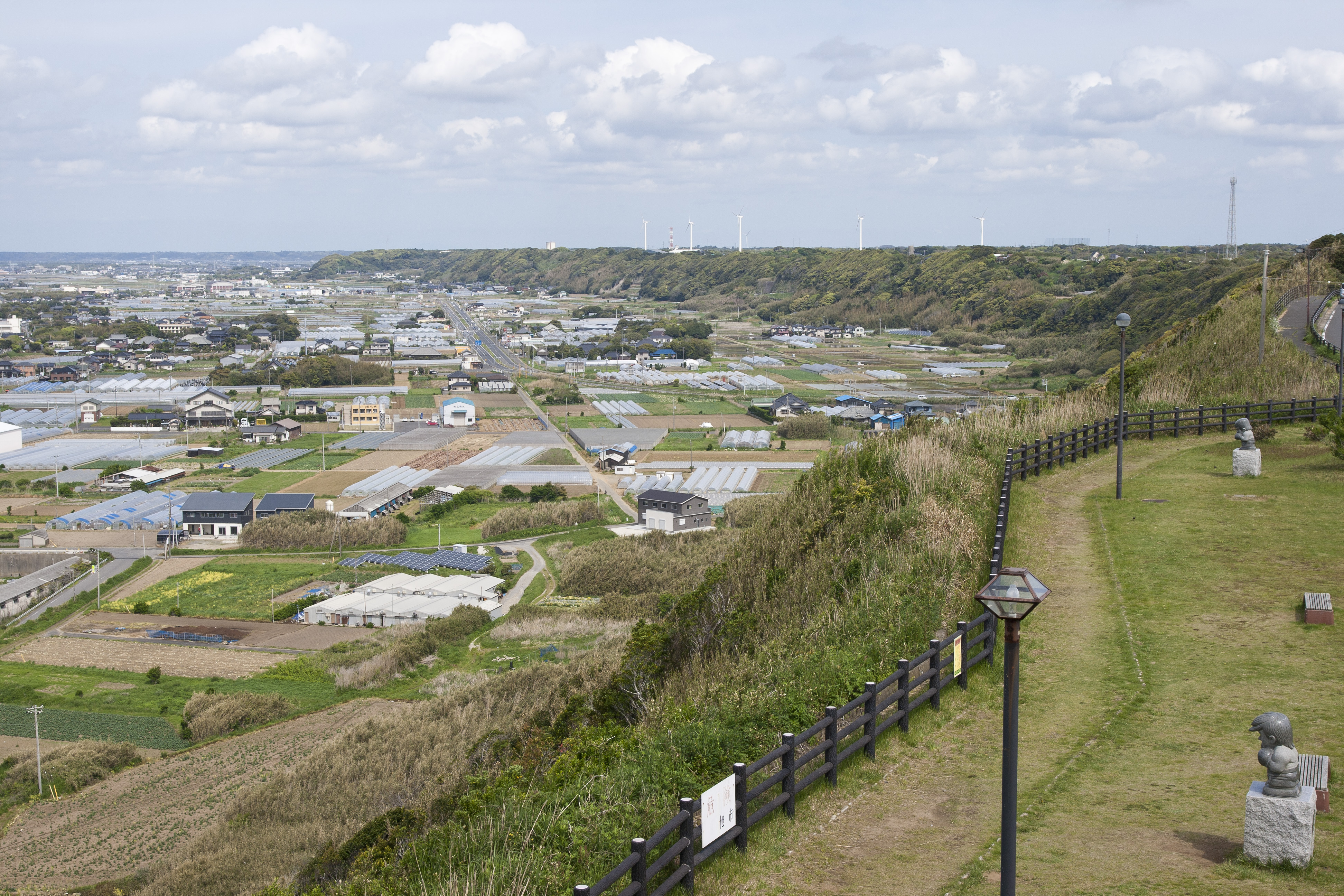 Shimousa Plateau as seen from Cape Gyobu, Asahi City, Chiba Pref., Japan